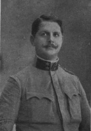 Győző Zemplén